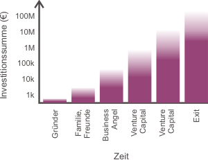 Sketch of startup financing rounds